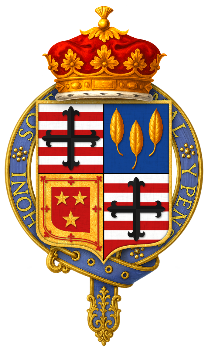 Shield of arms of George Sutherland-Leveson-Gower, 3rd Duke of Sutherland, as displayed on his Order of the Garter stall plate in St. George's Chapel.